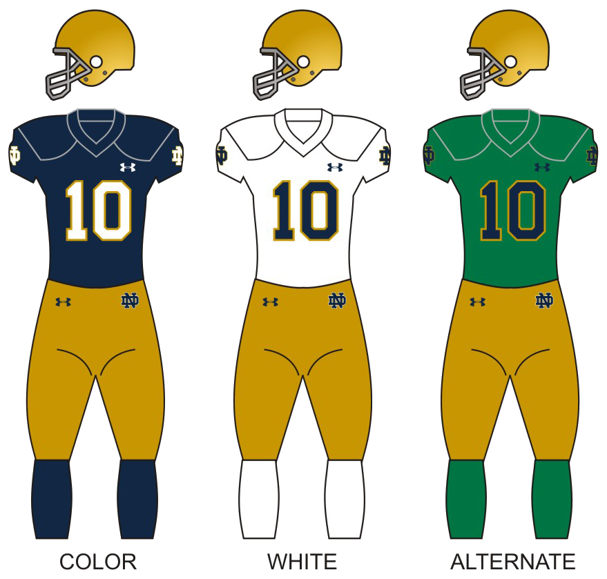 Football uniforms for the Notre Dame Fighting Irish